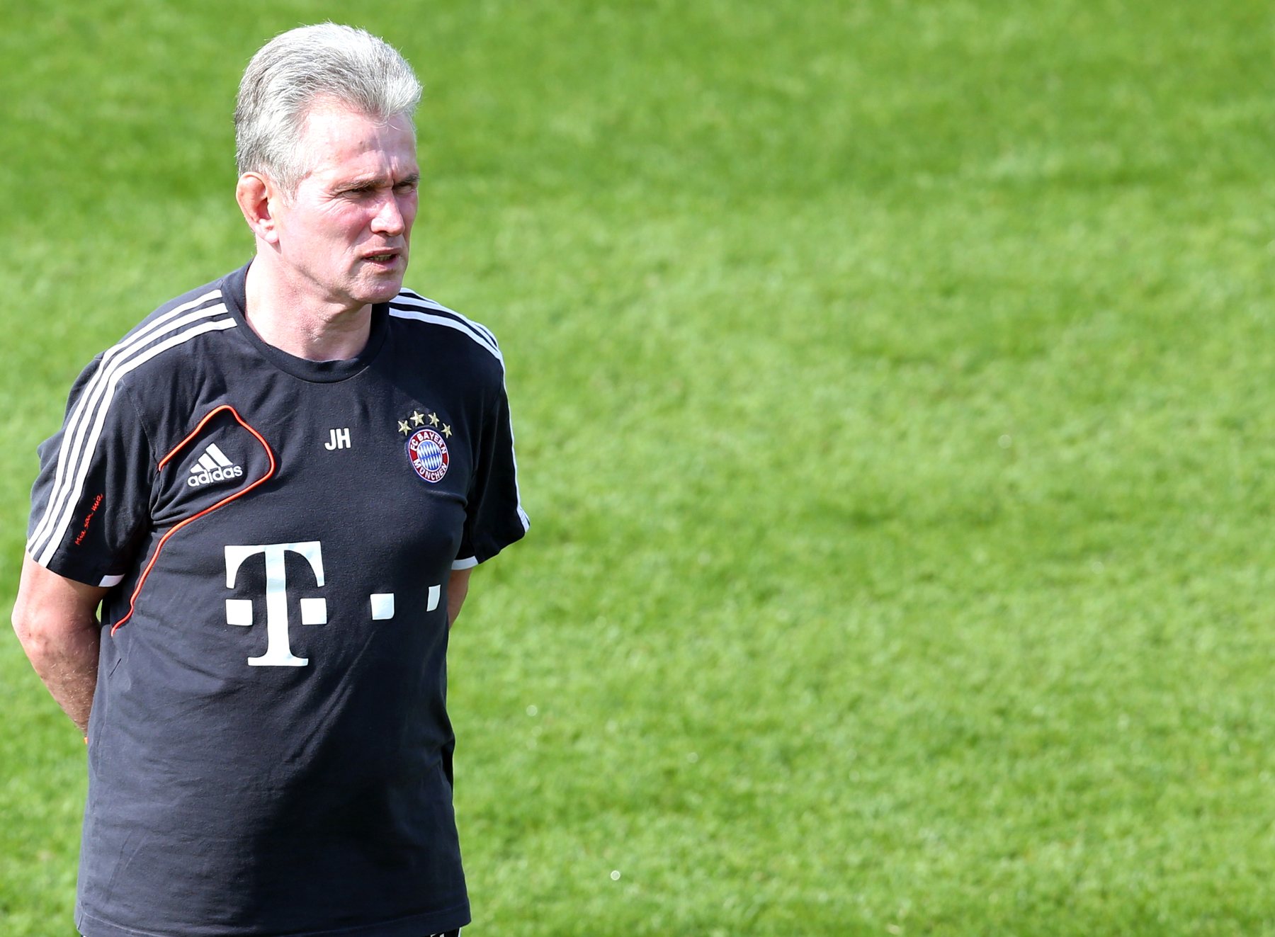 German club Bayern Munich's coach Jupp Heynckes during his team's training session at the ASPIRE Academy in Doha.